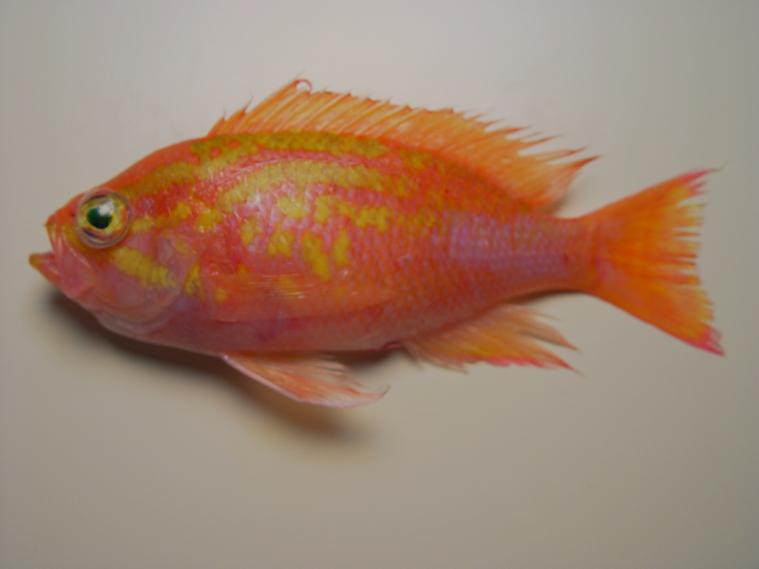 Roughtongue bass ( Pronotogrammus martinicensis ) . Gulf of Mexico.